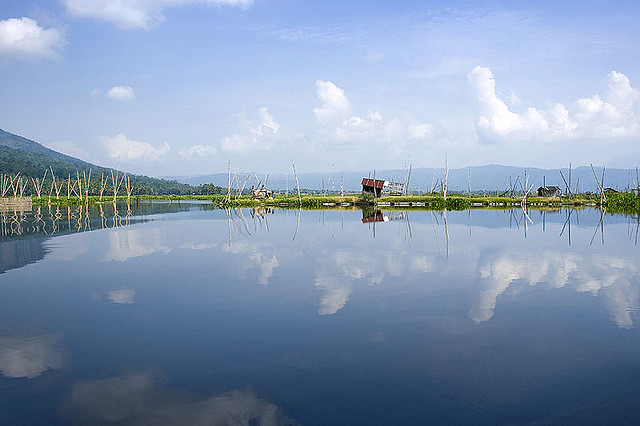 Rawa Pening, Semarang, Central Java, Indonesia